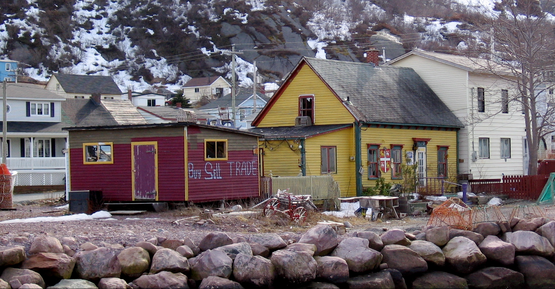 Some houses near Petty Harbour, Newfoundland